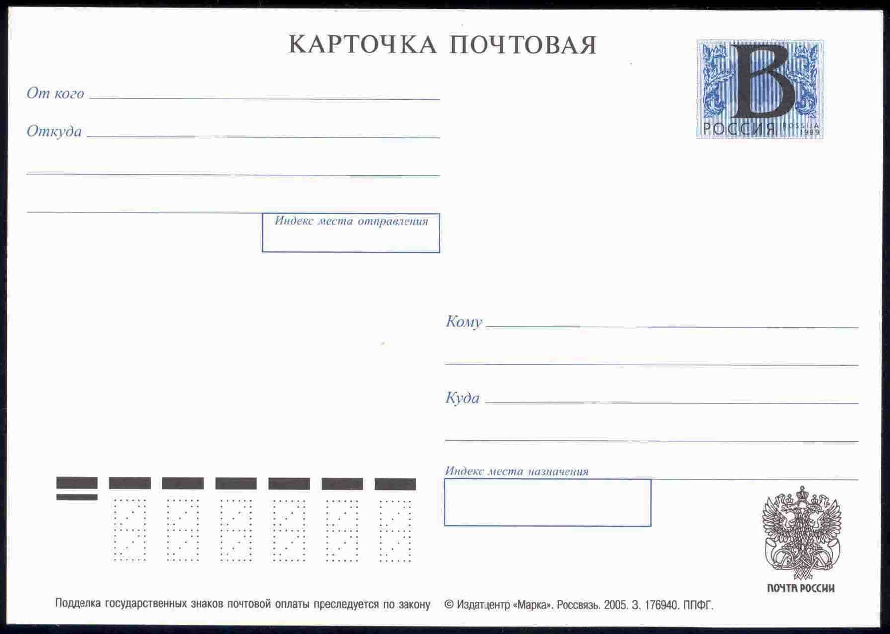 An example of unused 2005 standard stamped Russian postcard with standard non-denominated type "B" postage stamp of 1999.